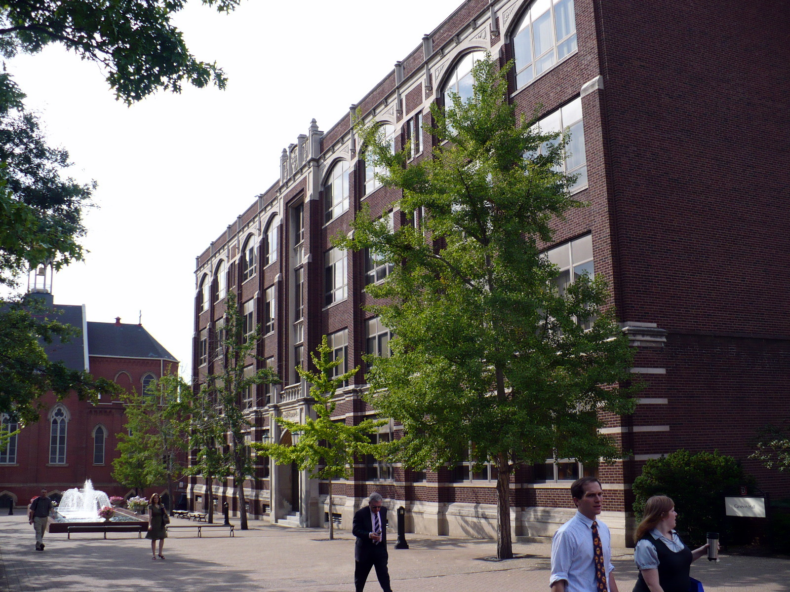 Duquesne University's Canevin Hall and Academic Walk.